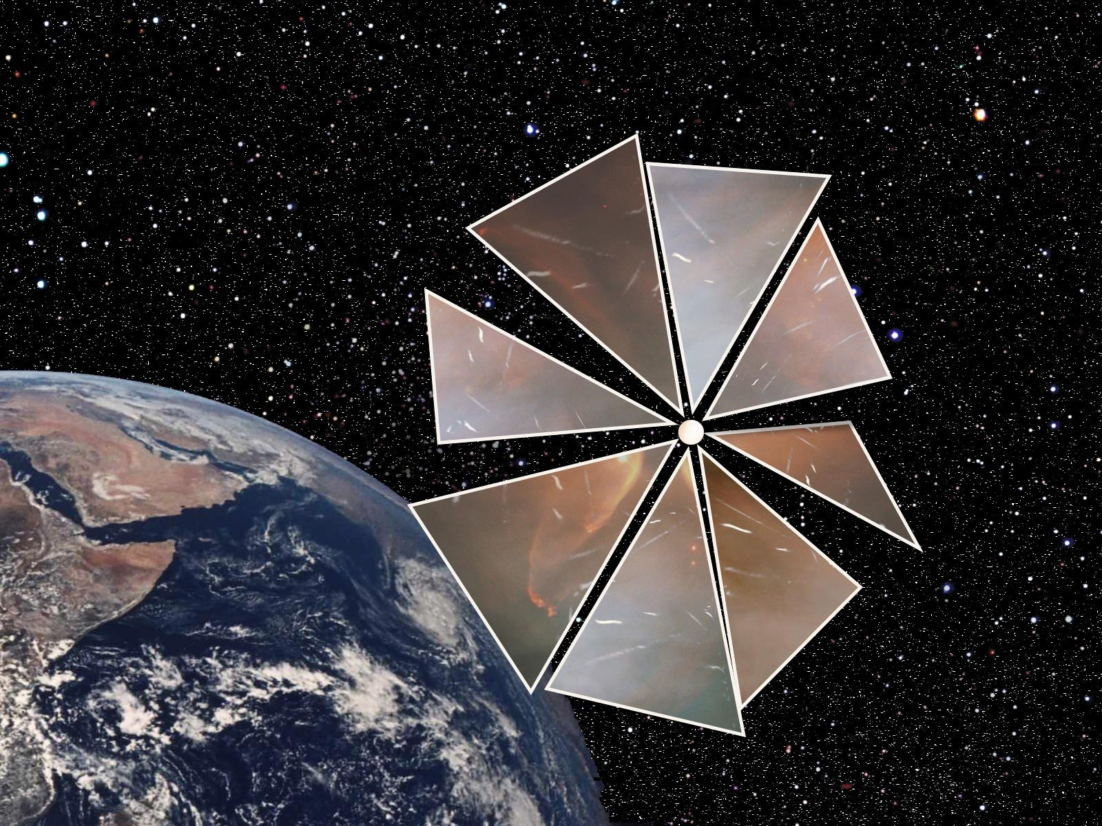 This is an imagining of Cosmos 1, The Planetary Society's experimental solar sail mission, orbiting around the Earth.